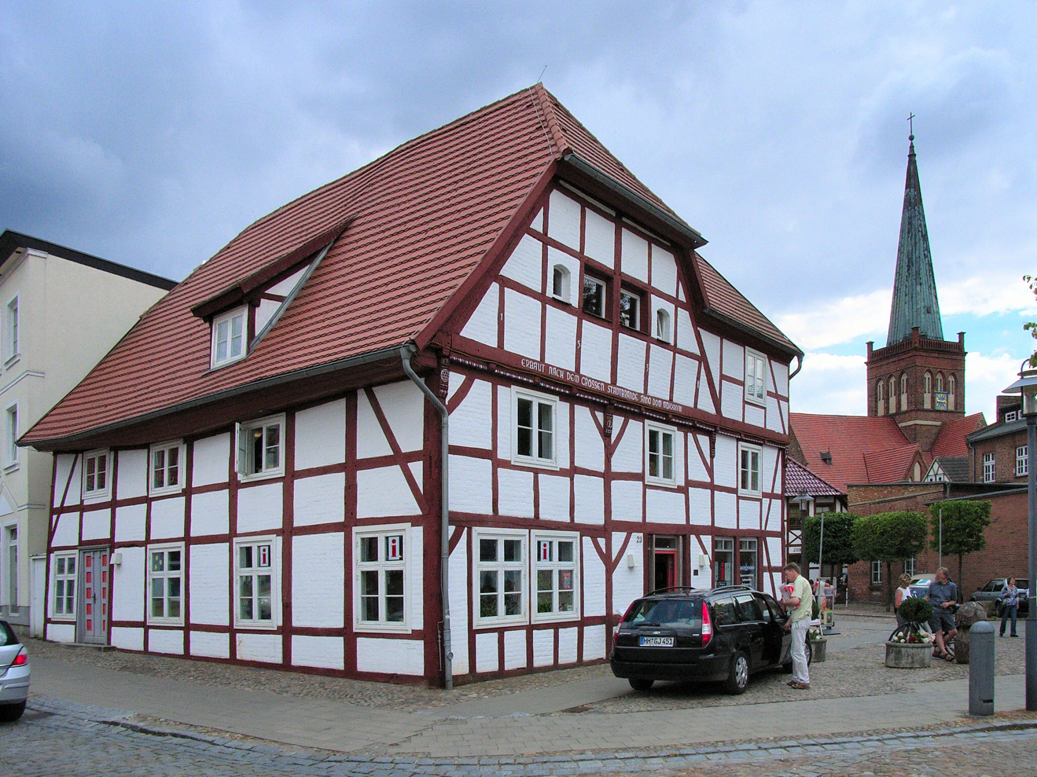 Tourist office in a half-timbered house of 1538 at the marketplace in Bergen (island Rügen, Germany) and the St Mary Church (start of construction: 1180)